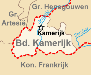 Topographic map of the Bishopric of Cambrai in the late 14th centry.